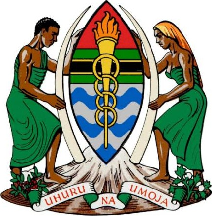 Coat of arms of Tanganyika